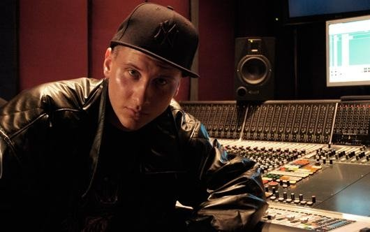 german Rapper Taichi recording